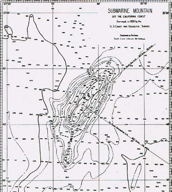 Bathymetric map of what is now called the Davidson Seamount off of Monterey California